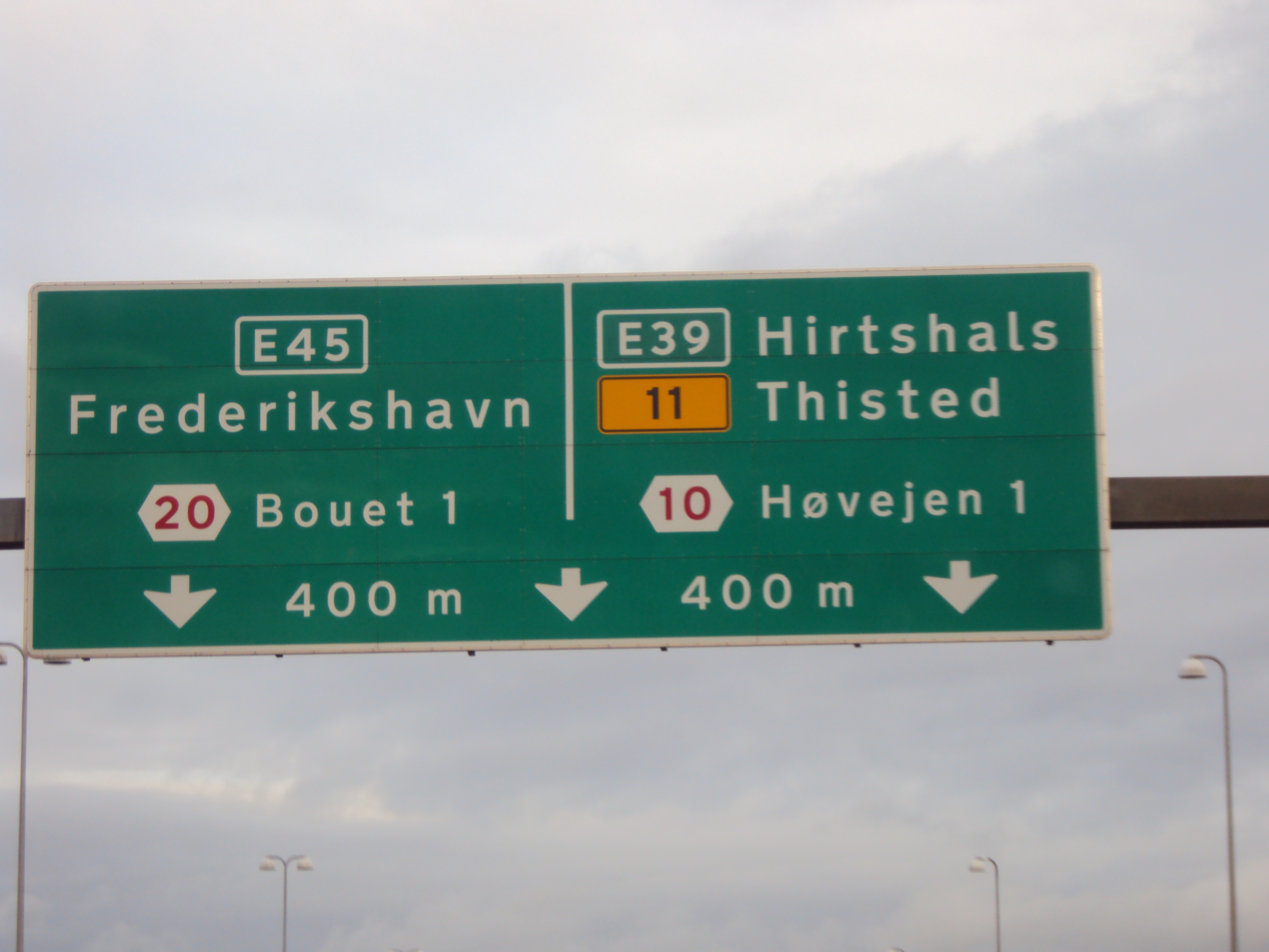 Overhead sign at Interchange Vendsyssel showing the destinations